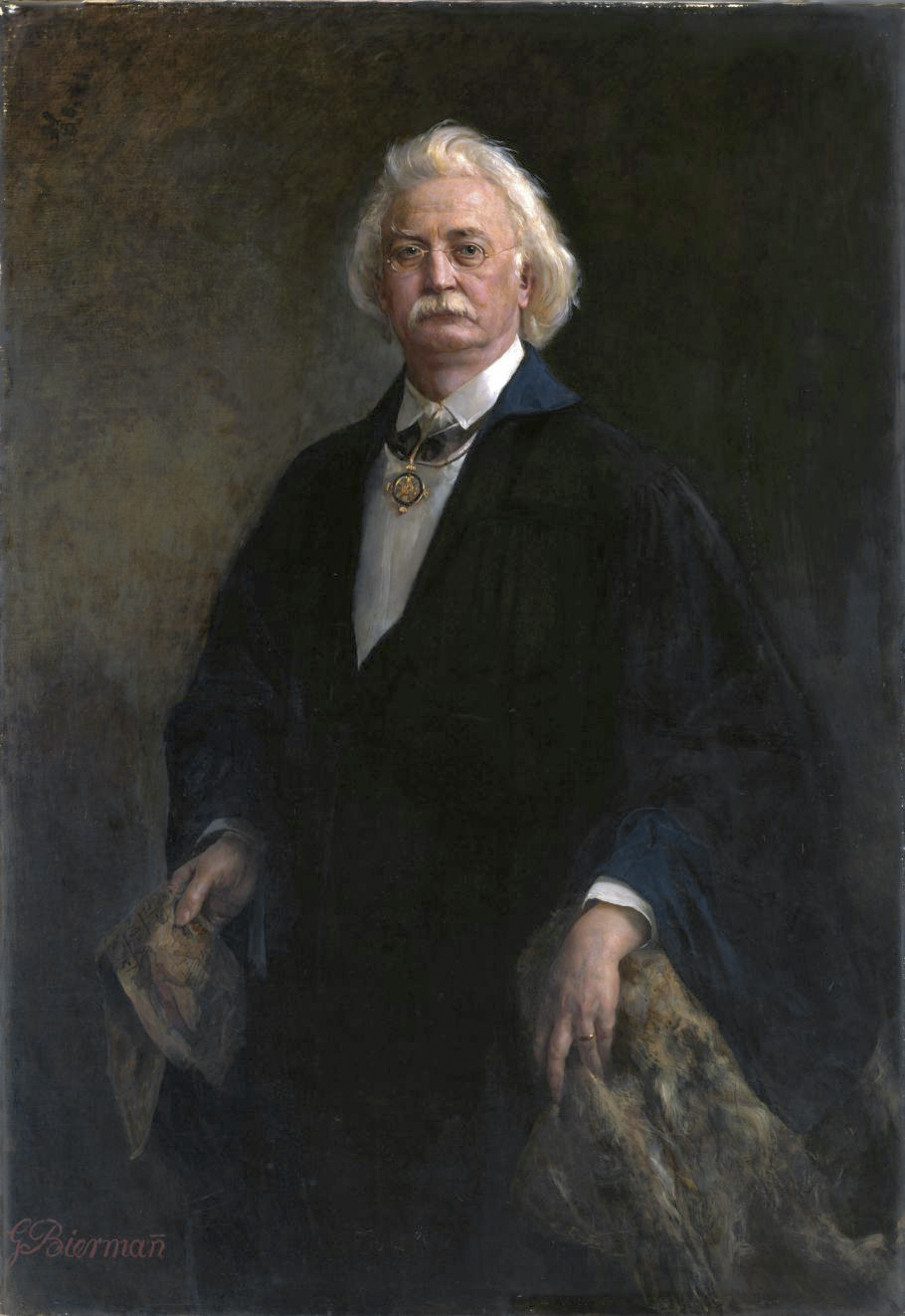 Professor Richard Lepsius oil on canvas 146 x 100 cm signed b.l.: G Bierman circa 1885